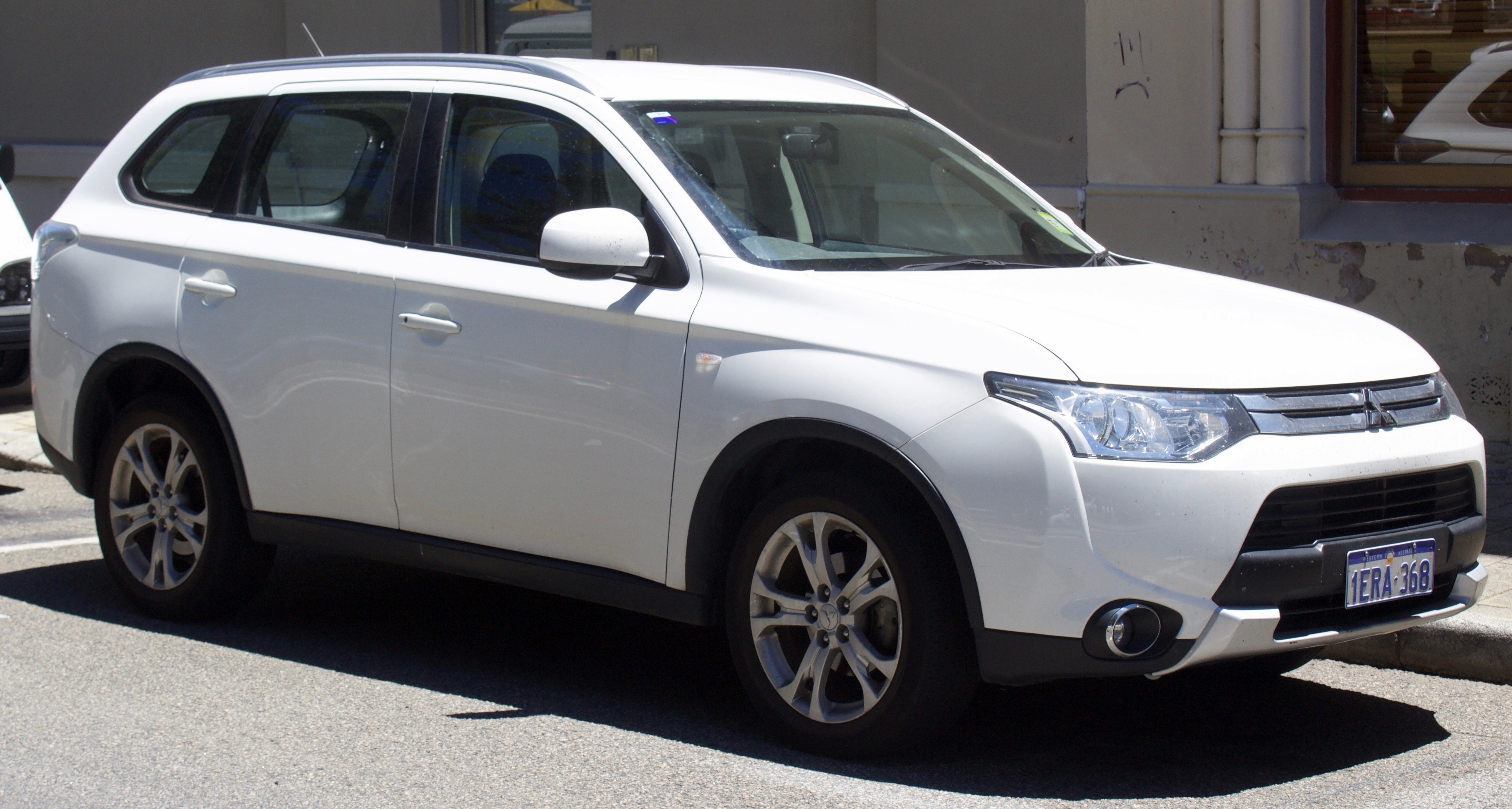 2014 Mitsubishi Outlander (ZJ MY14.5) ES 2WD wagon. Photographed in Fremantle, Western Australia, Australia.